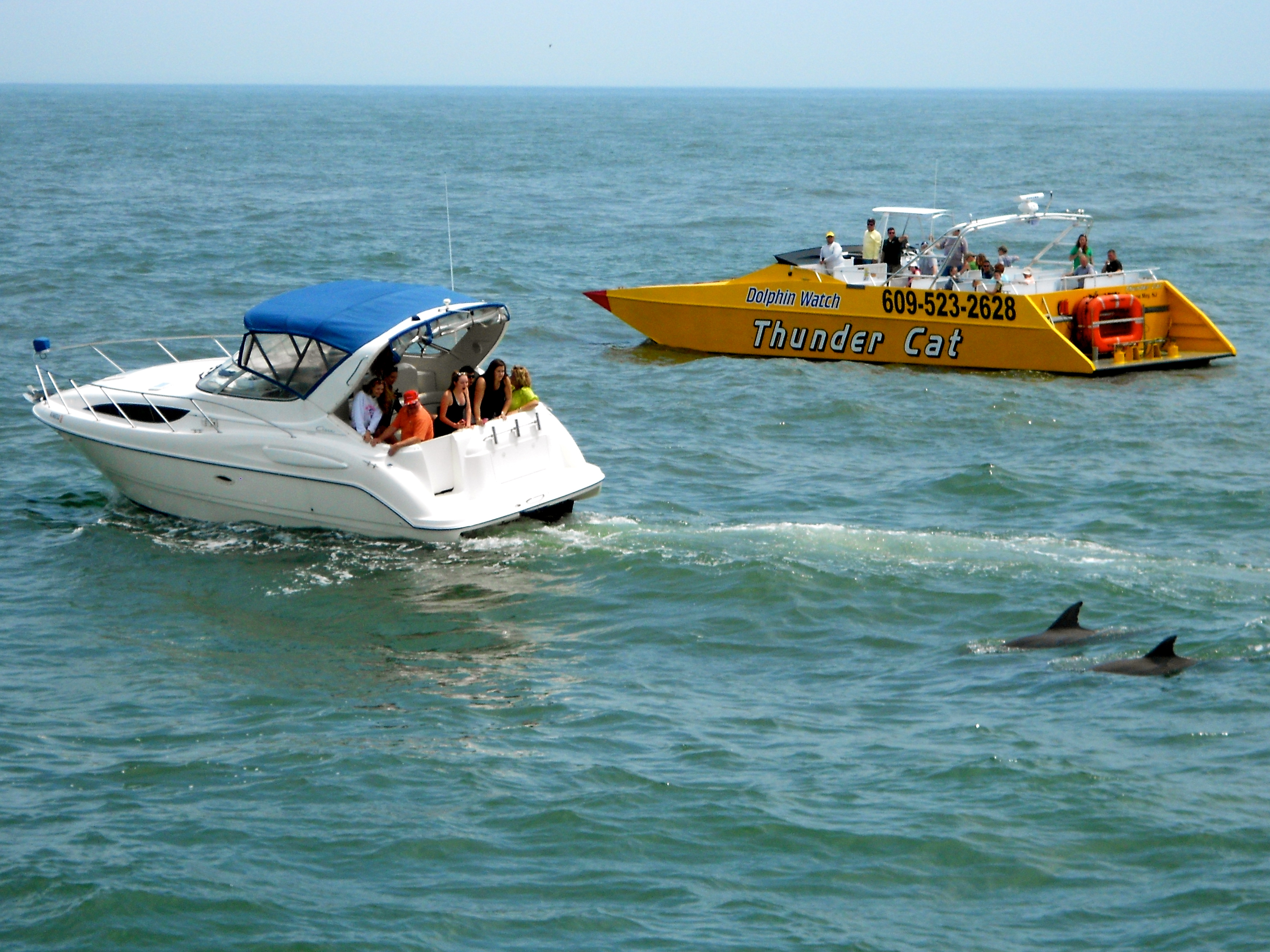 Two boats out dolphin watching in the ocean just south of Cape May, New Jersey